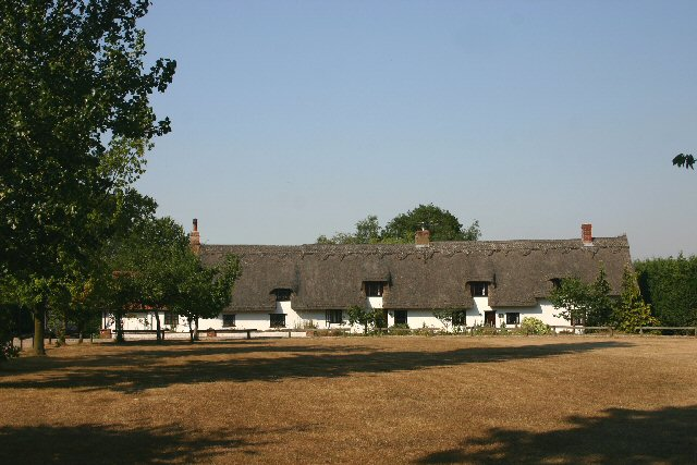 Flempton Green. A pretty row of cottages on the north side of the green at Flempton, opposite the Greyhound pub.